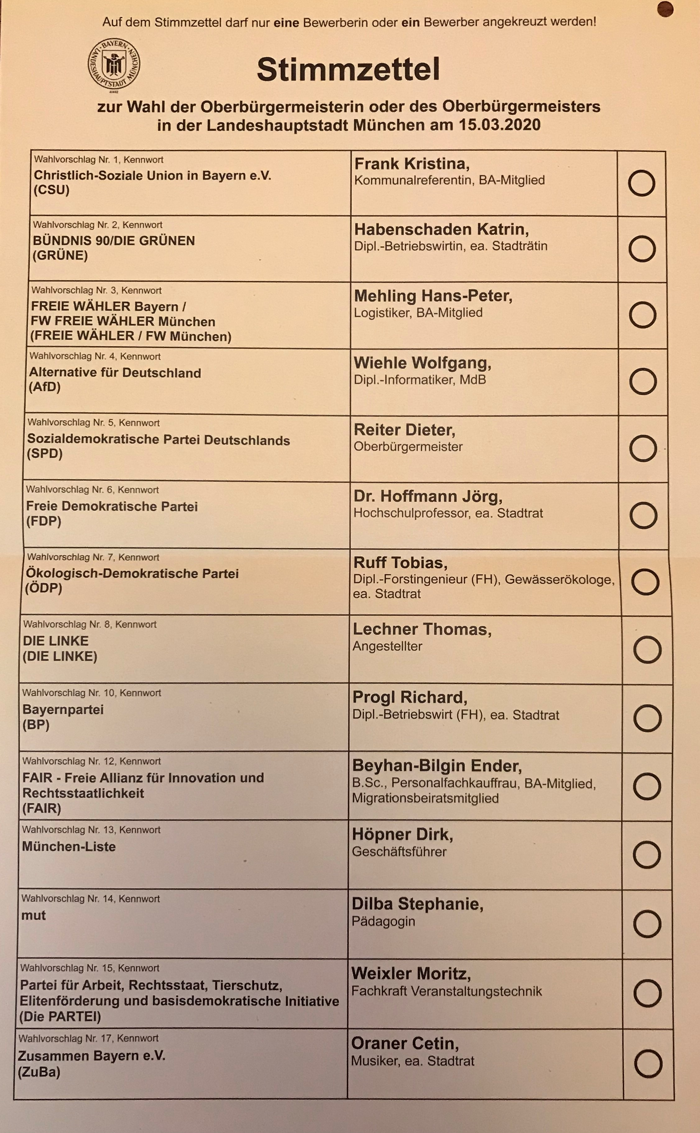 Sample ballot cards Lord Mayor election Munich